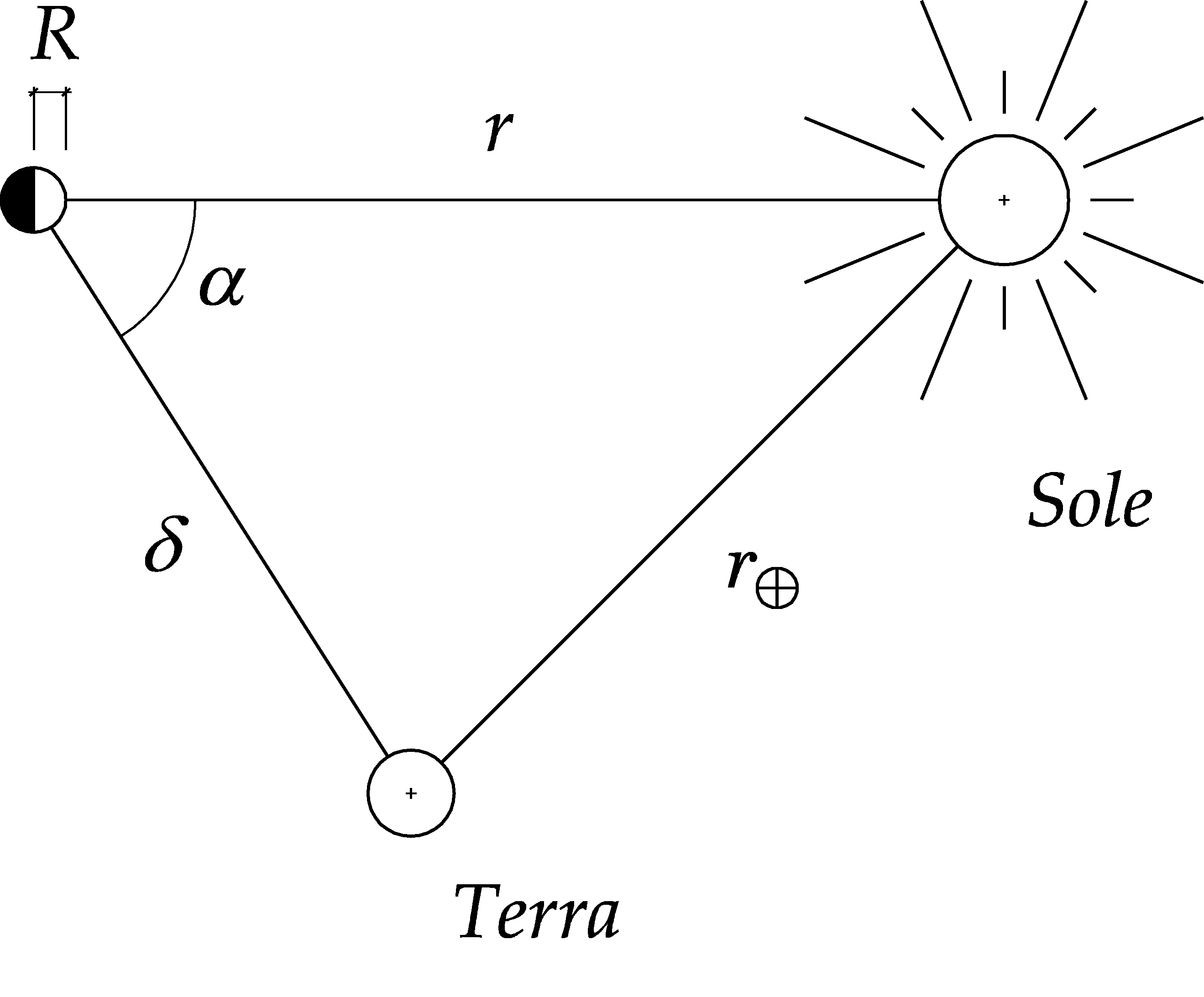 Scheme for geometric albedo calculation.